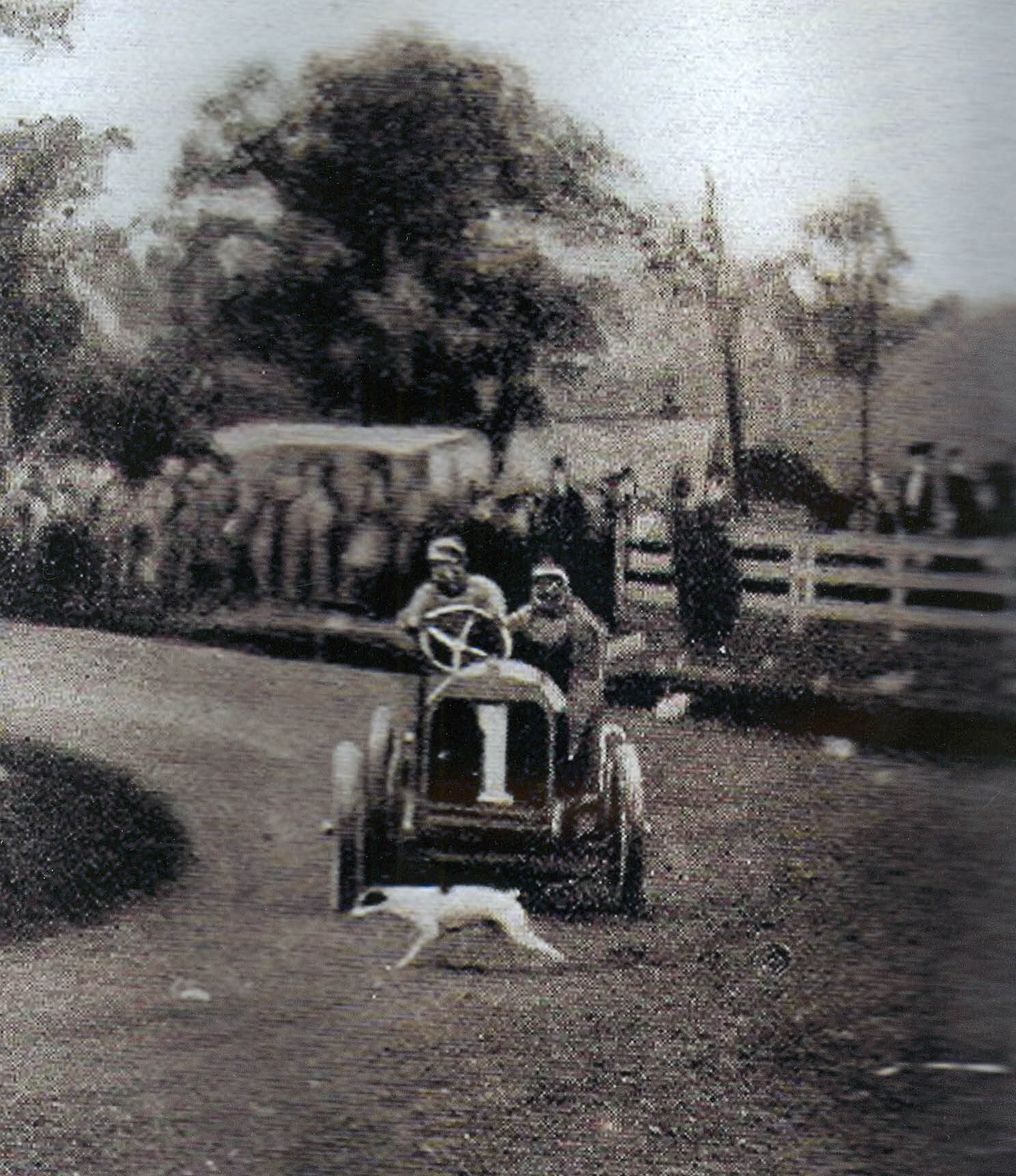 1906 Vanderbilt Cup at Westbury, Long Island, New York, - Hubert Le Blon in a 50 HP Thomas Flyer (built by the 'E.R. Thomas Motor Company' in Buffalo NY, the first car to start, encounters a dog.